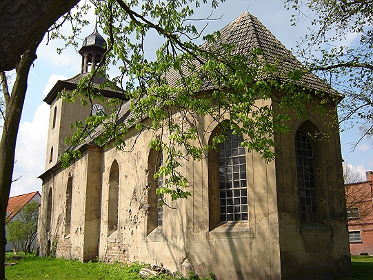 Protestant church in Wörmlitz (Saxony-Anhalt)